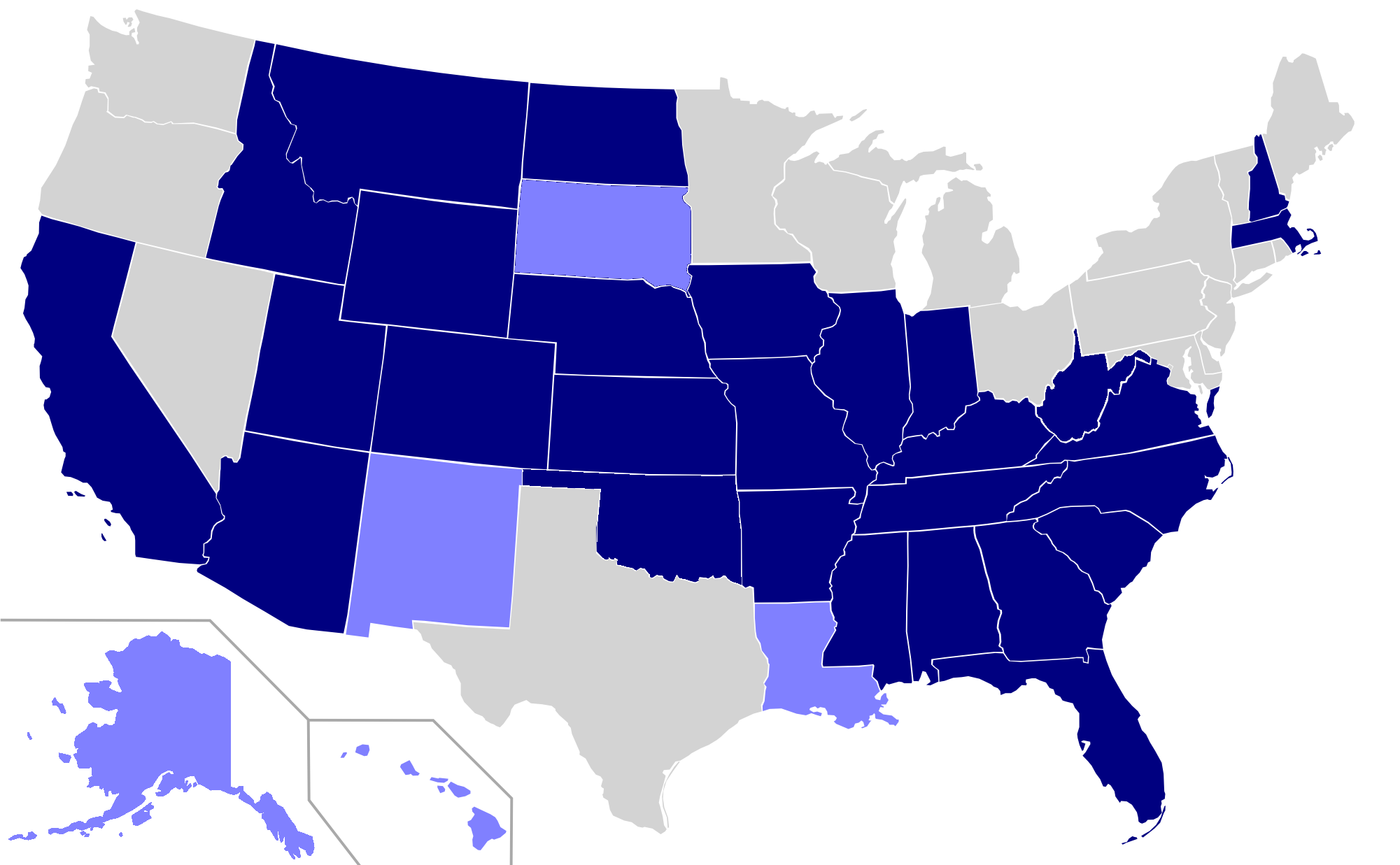 US states where English is an official language